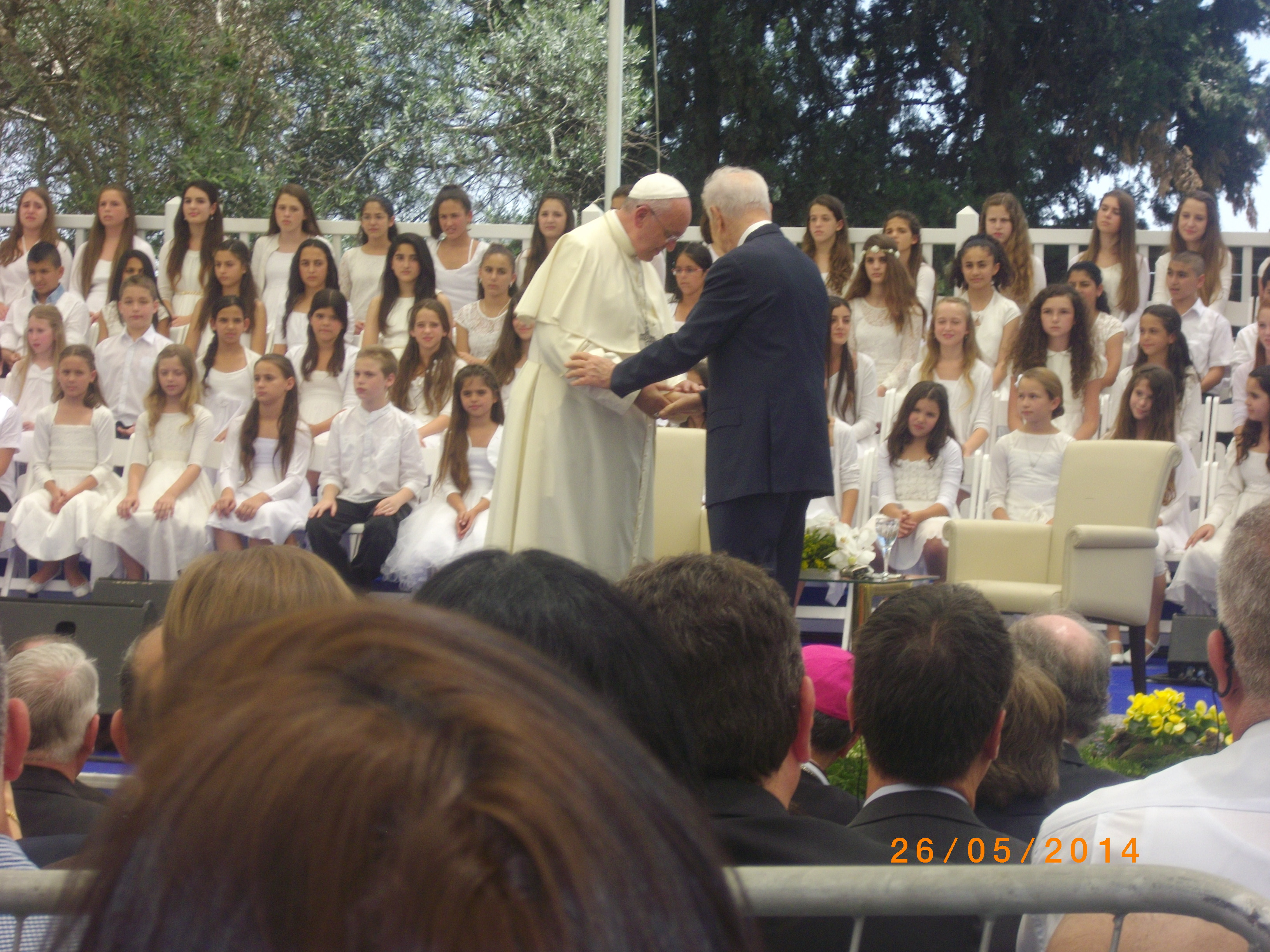 Pope Francis with Shimon Peres